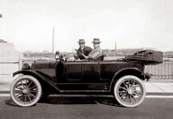 Herbert E. French and "Artie" Leonard sitting in a Detroiter that's parked on the Inlet Bridge in Washington, D.C. The Washington Monument is in the background. French, the driver, was owner of the National Photo Company and Leonard was one of the photographers he employed.